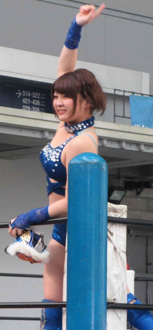 Japanese professional wrestler, Saori Anou. Dec 29 2016, Saitama Super Arena, Legend Womens professional wrestling.